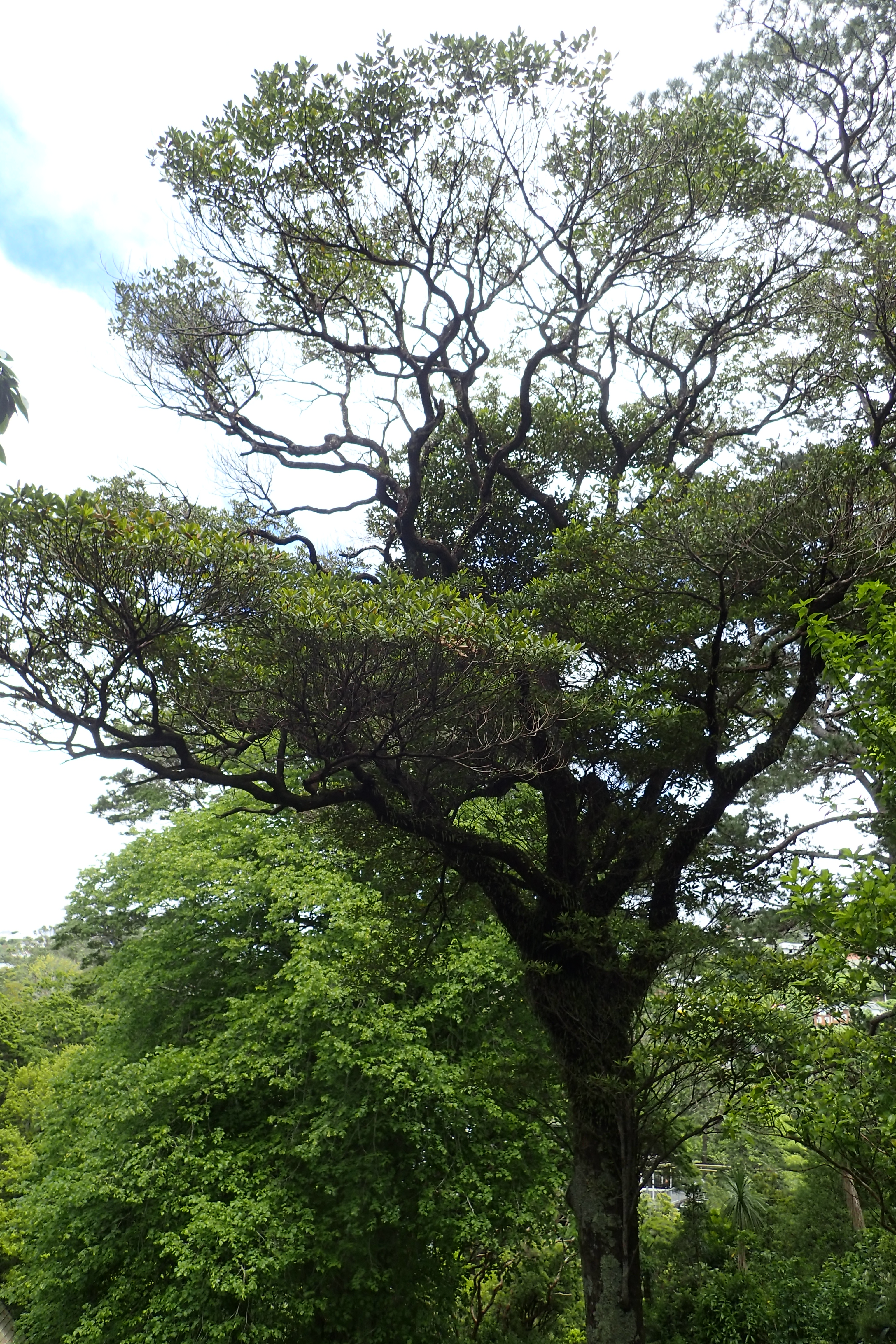 Elaeocarpus dentatus in Wellington Botanical Garden